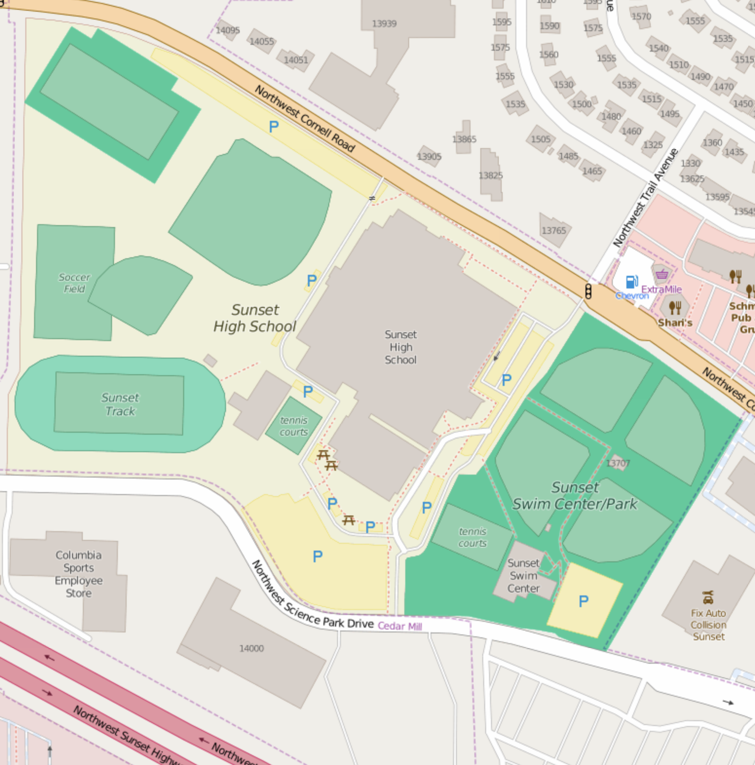 Map of Sunset High School campus This map of Beaverton, Oregon was created from OpenStreetMap project data, collected by the community. This map may be incomplete, and may contain errors. Don't rely solely on it for navigation.